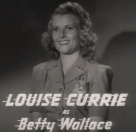 Louise Currie in Adventures of Captain Marvel, Chapter 1 Curse of the Scorpion - cropped screenshot